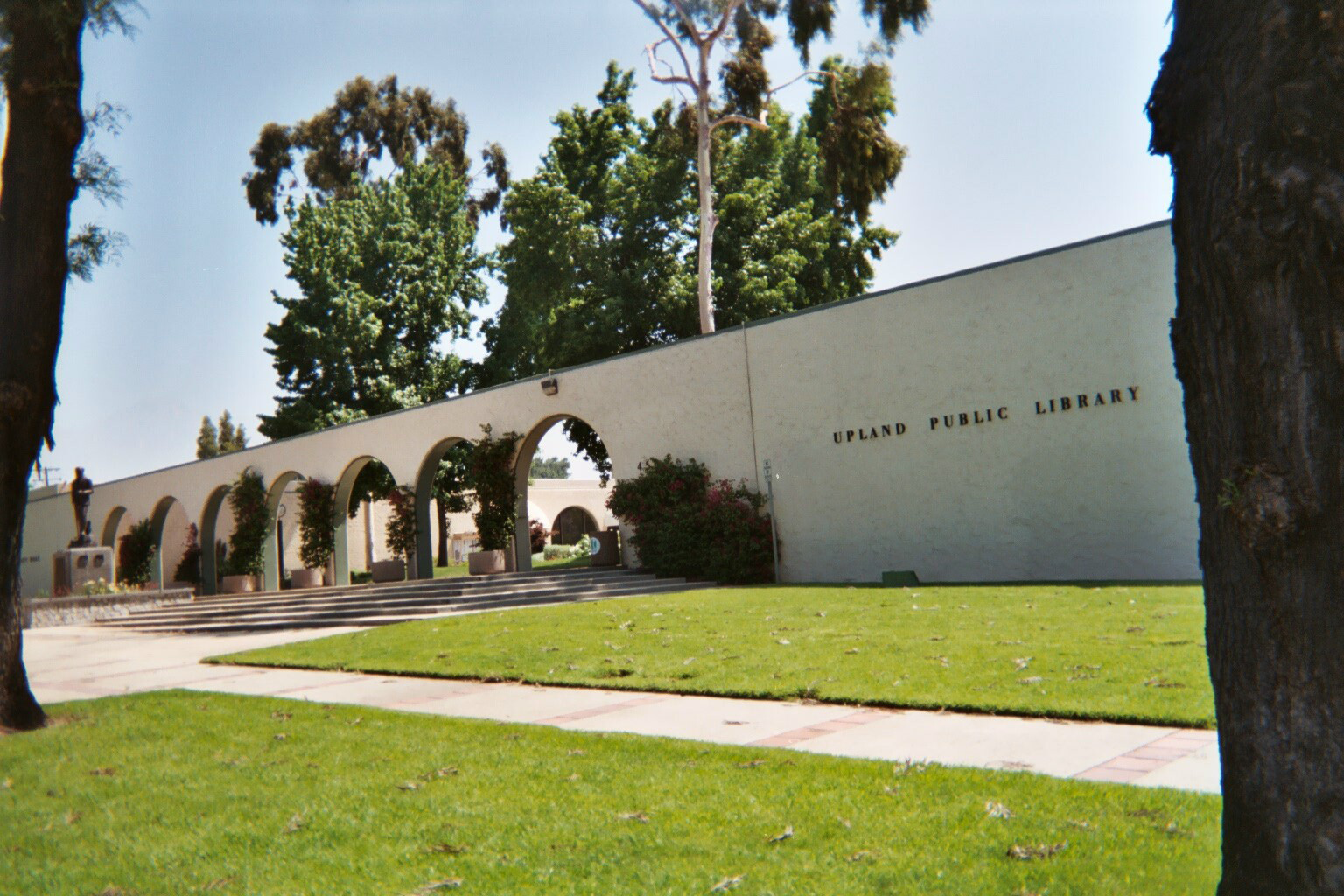 Upland City Hall (left) and Upland Public Library (right). The statue of George Chaffey is visible on the far left. Taken June 18, 2006.